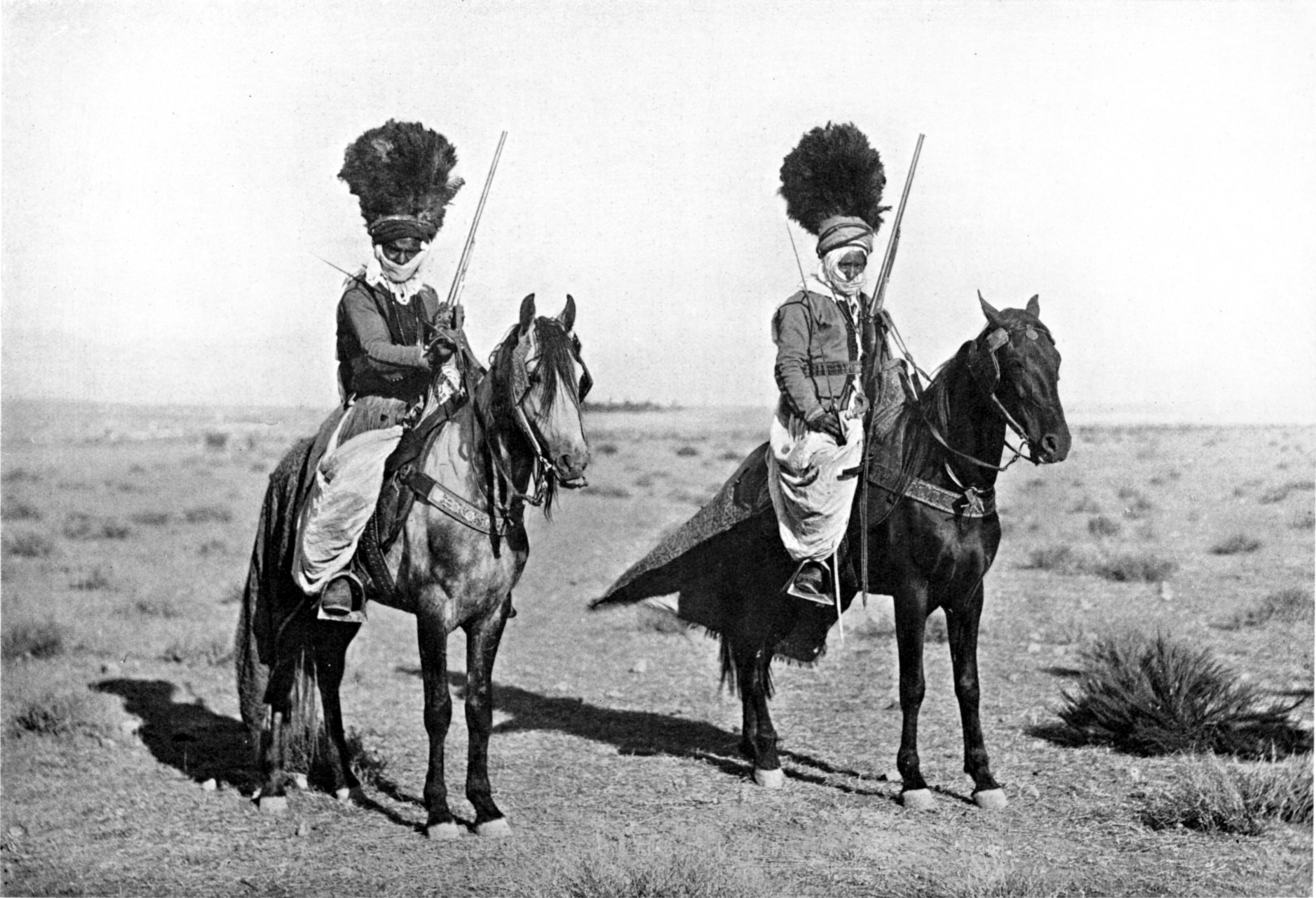 Native horsemen, Algeria.In Algiers the native tribes have to furnish contingents to the French army, and it is interesting to notice that in spite of the leveling effect of uniform and of the barrack life, the natives retain some of their old customs, e.g.. that of covering the mouth. Photo by Neurdein Frères.